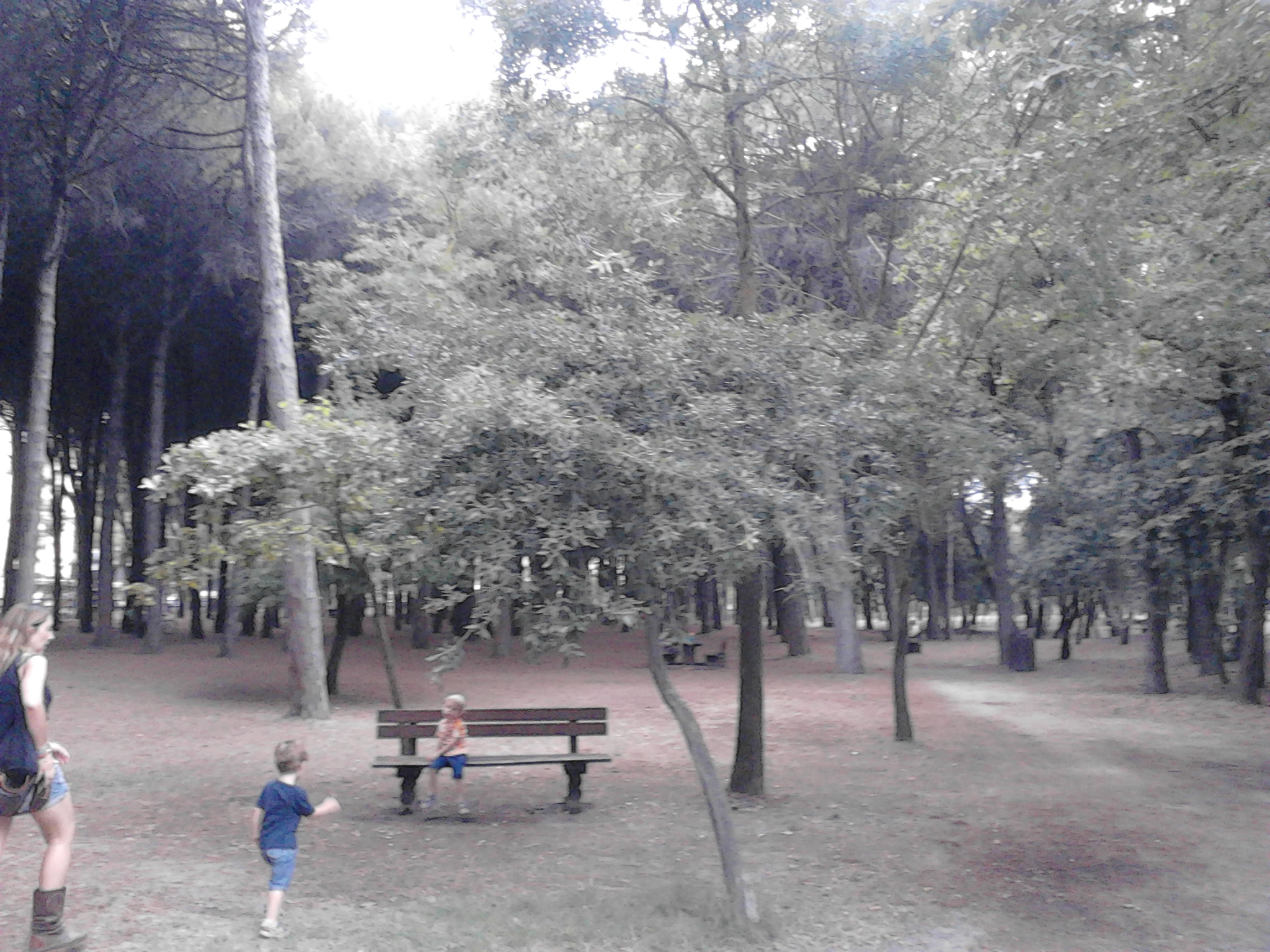 The Pineta in Cervia